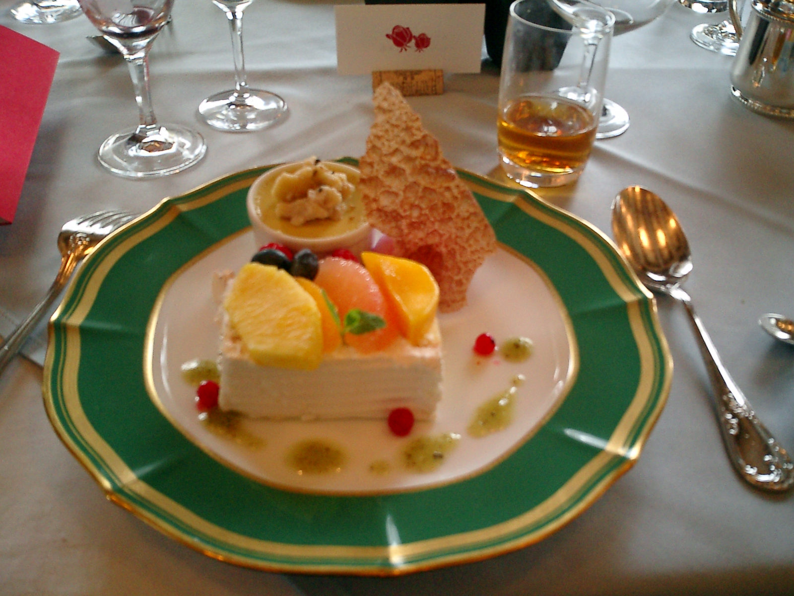 Desset dish served at wedding party.